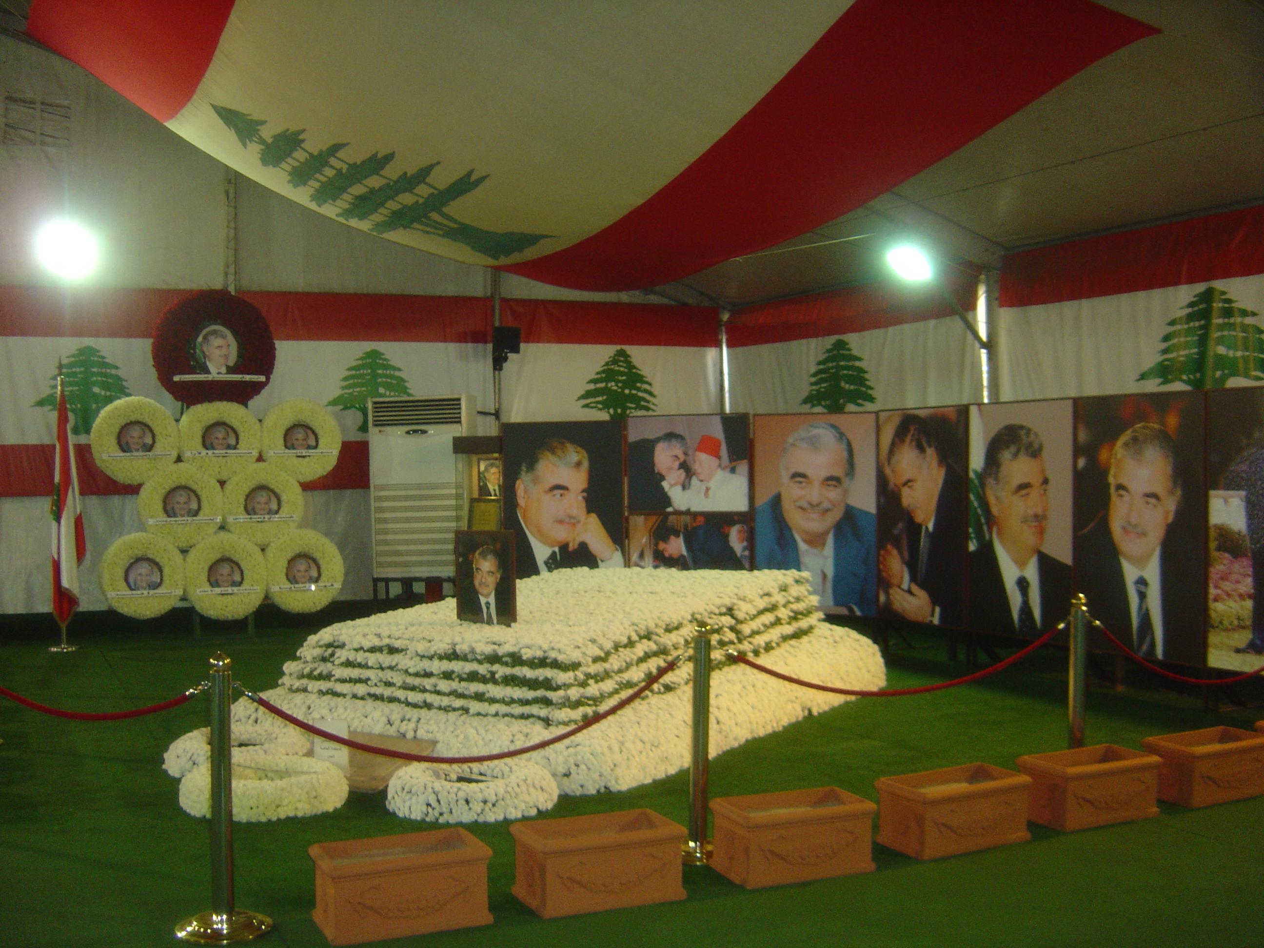 The grave of Rafiq Hariri, Beirut